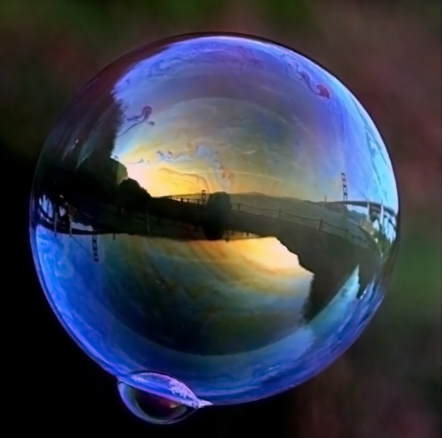 Golden Gate Bridge is reflected in a soap bubble